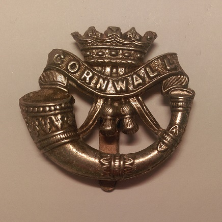 Photo of Duke of Cornwall's Light Infantry Cap Badge from personal collection